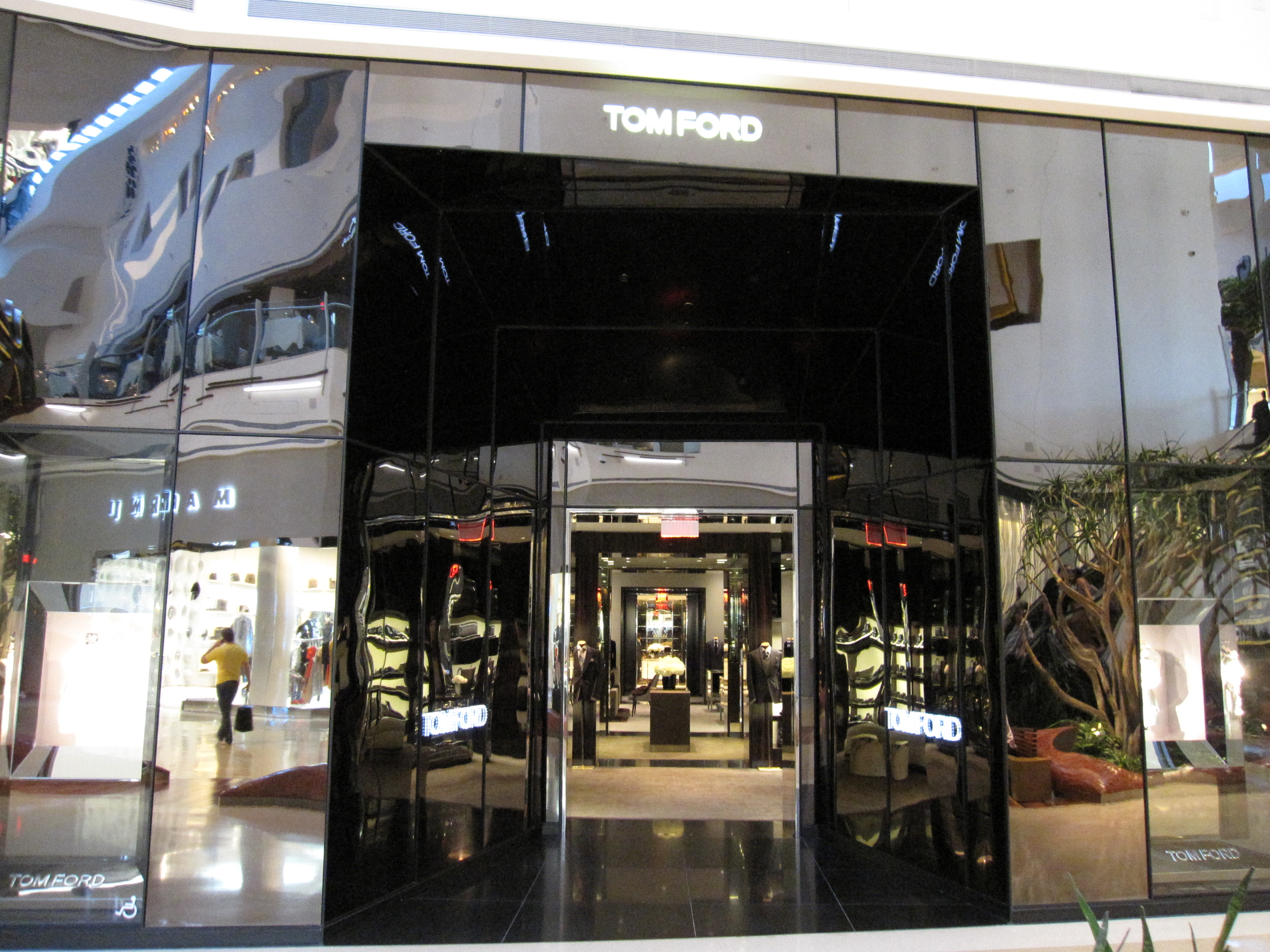 Shop in the The Crystals in Las Vegas